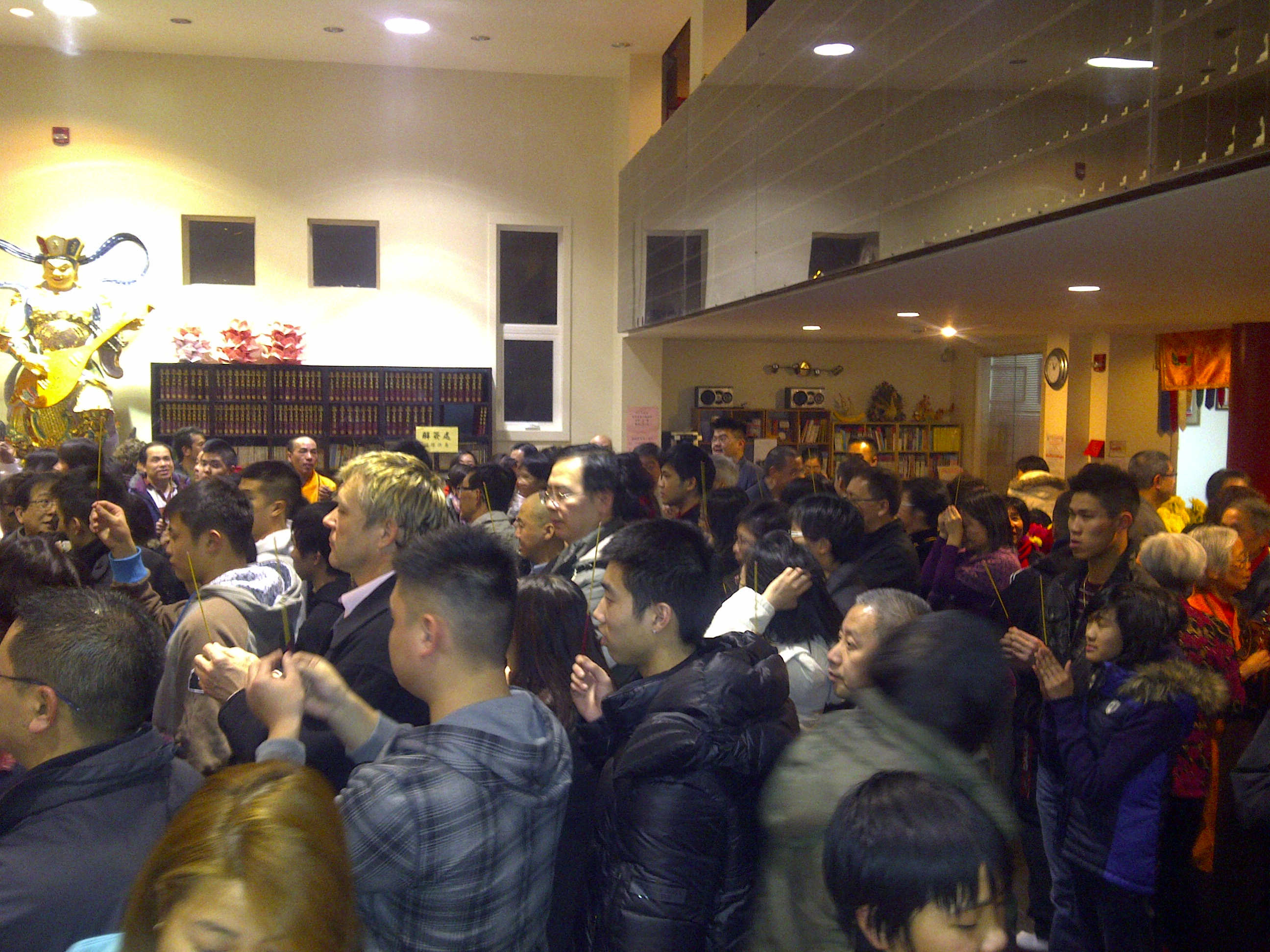 Crowds of people visit the Calgary Pai Yuin Temple during Chinese New Years Calgary True Buddha Pai Yuin Temple